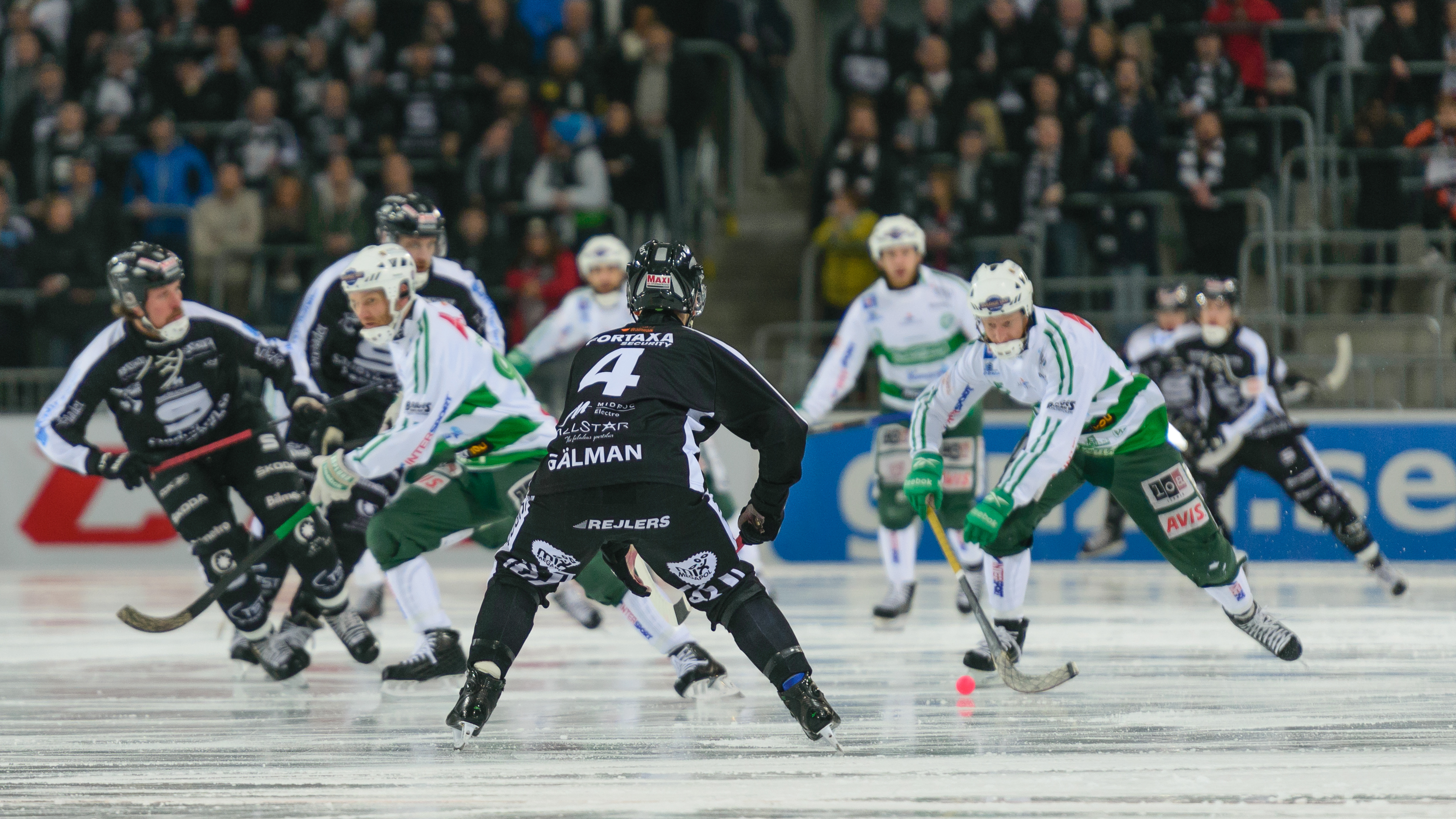 Swedish men's bandy championship final game of 2015, Sandvikens AIK (black)-Västerås SK (green/white) 4-6.